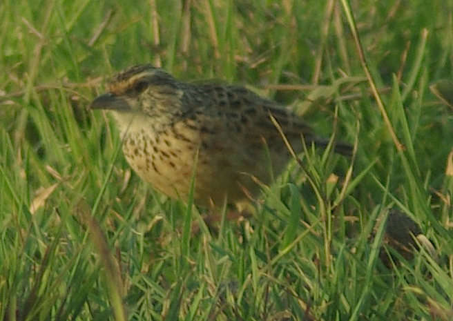 Rufous-naped Lark, Mirafra africana athi, slightly tentative identification by JMK, Sweetwaters Game Reserve, Kenya. The time stamp is 10 hours too early.